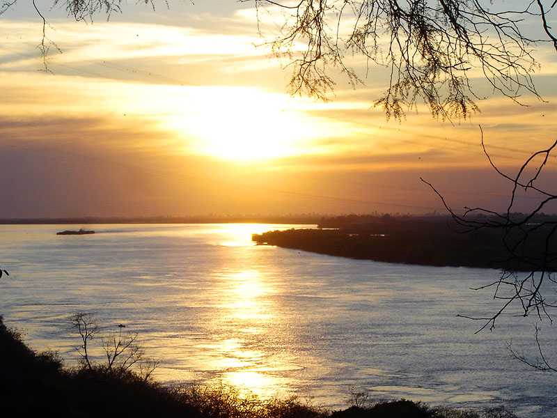 Rio Parana